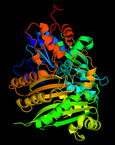 Protein structure of THCA synthase, from Shoyama et al (2012). Created in PyMol with PDB (3VTE)